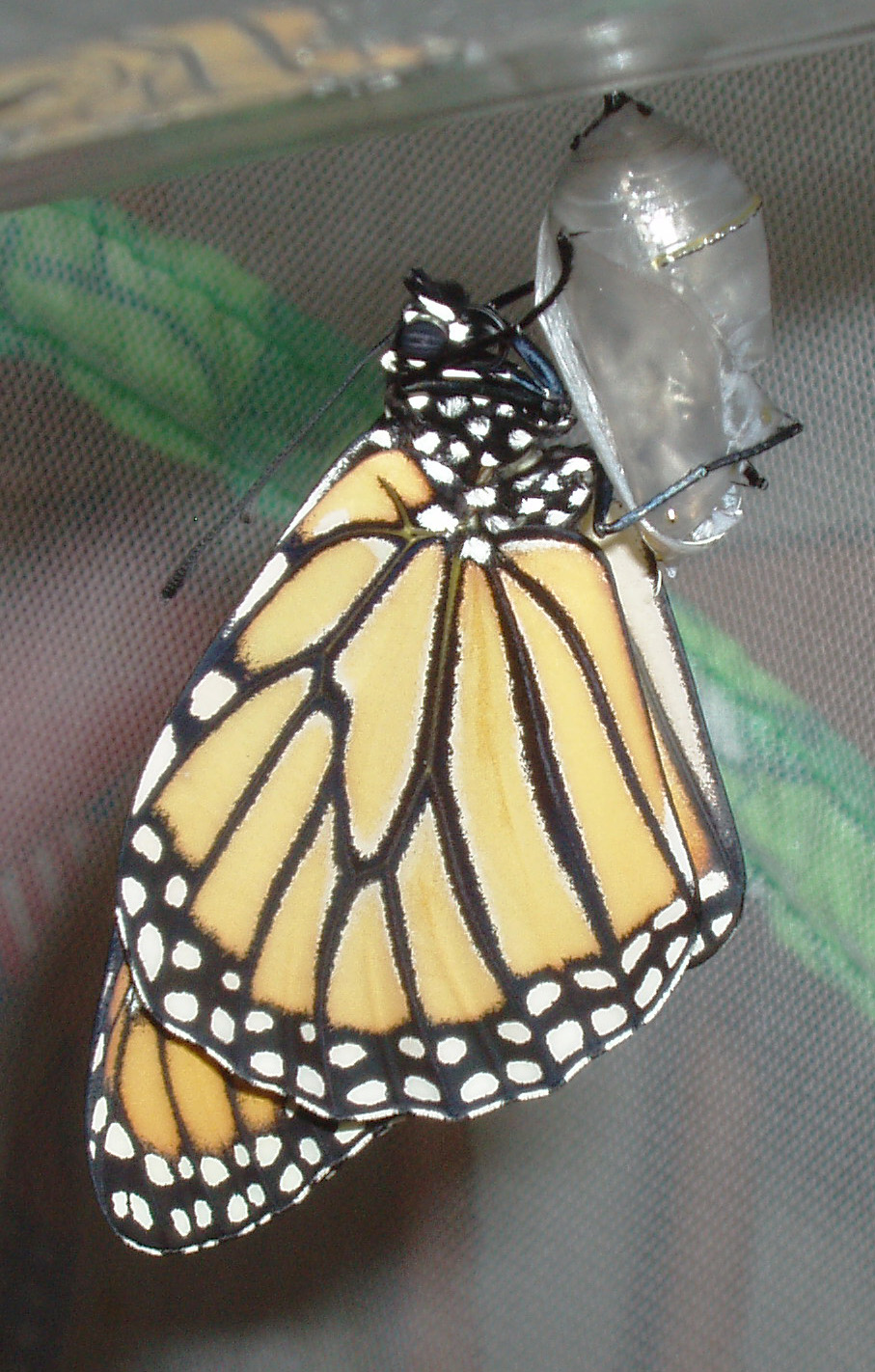 A Danaus plexippus en commonly know as a Monarch Butterfly emerging from its chrysalis.